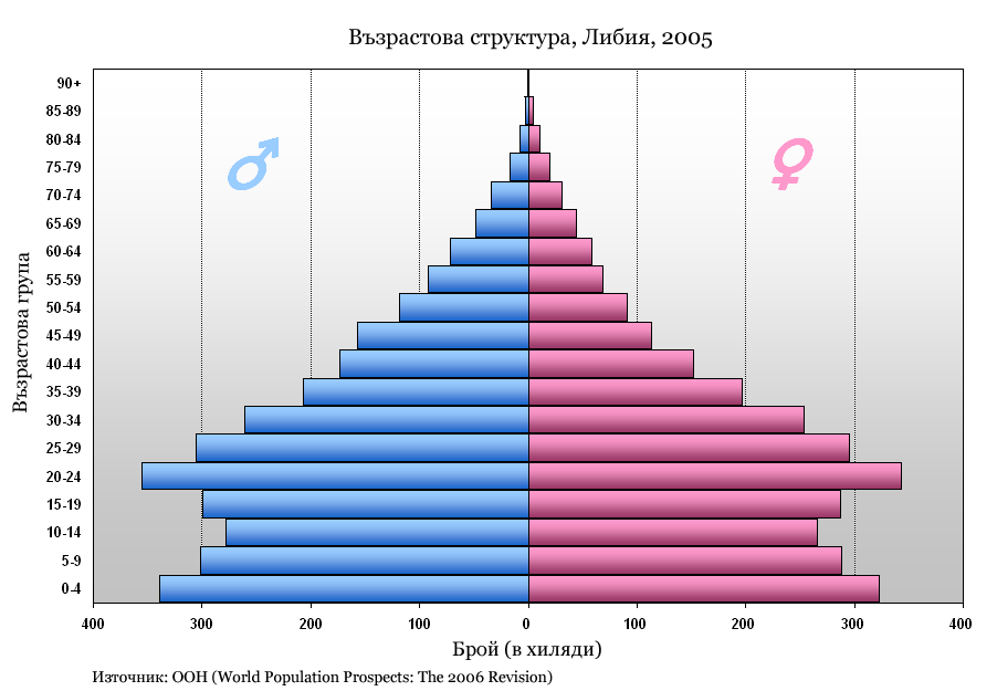 Libya Population pyramid, 2005